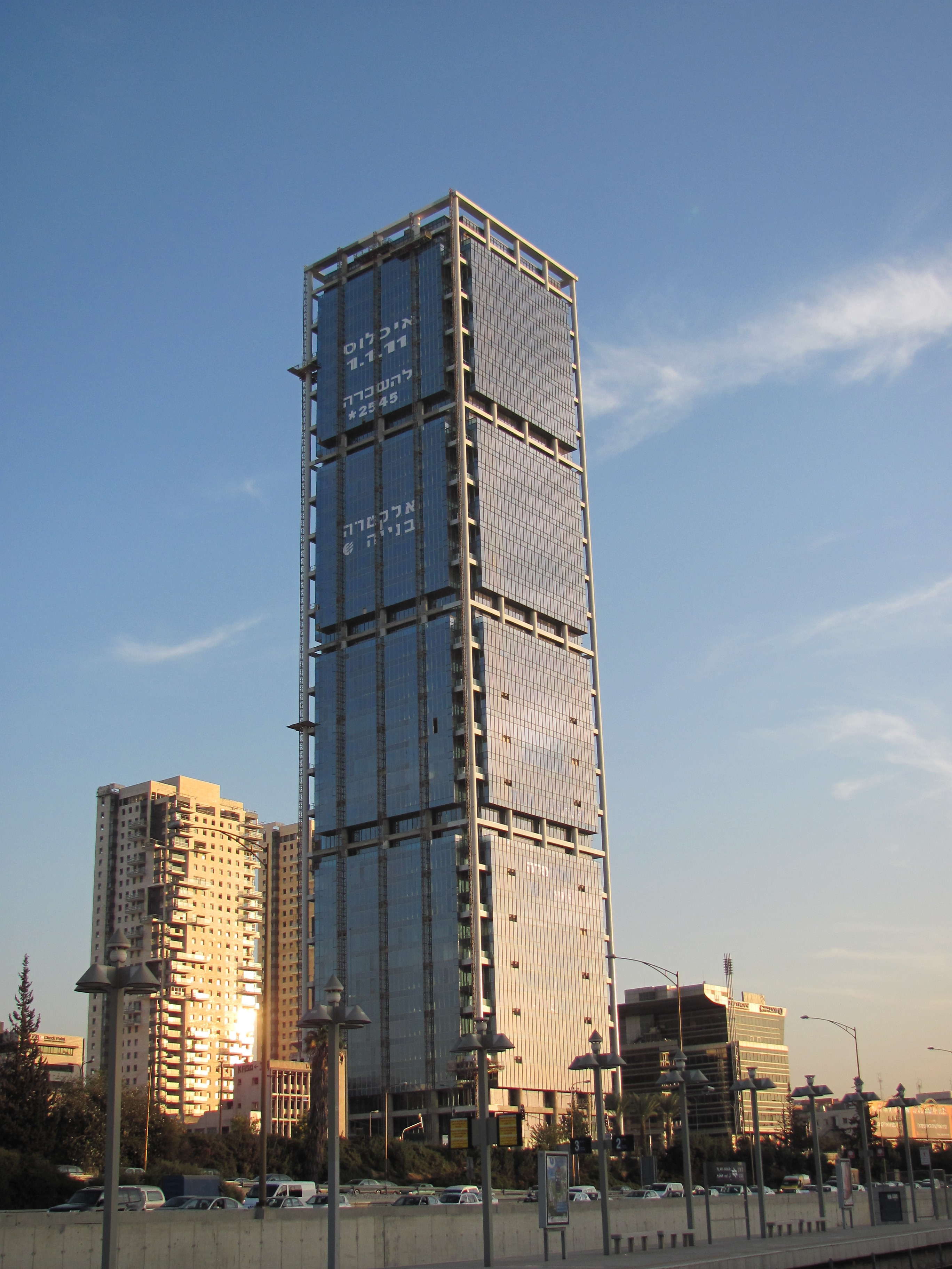 Elco tower in Tel Aviv.